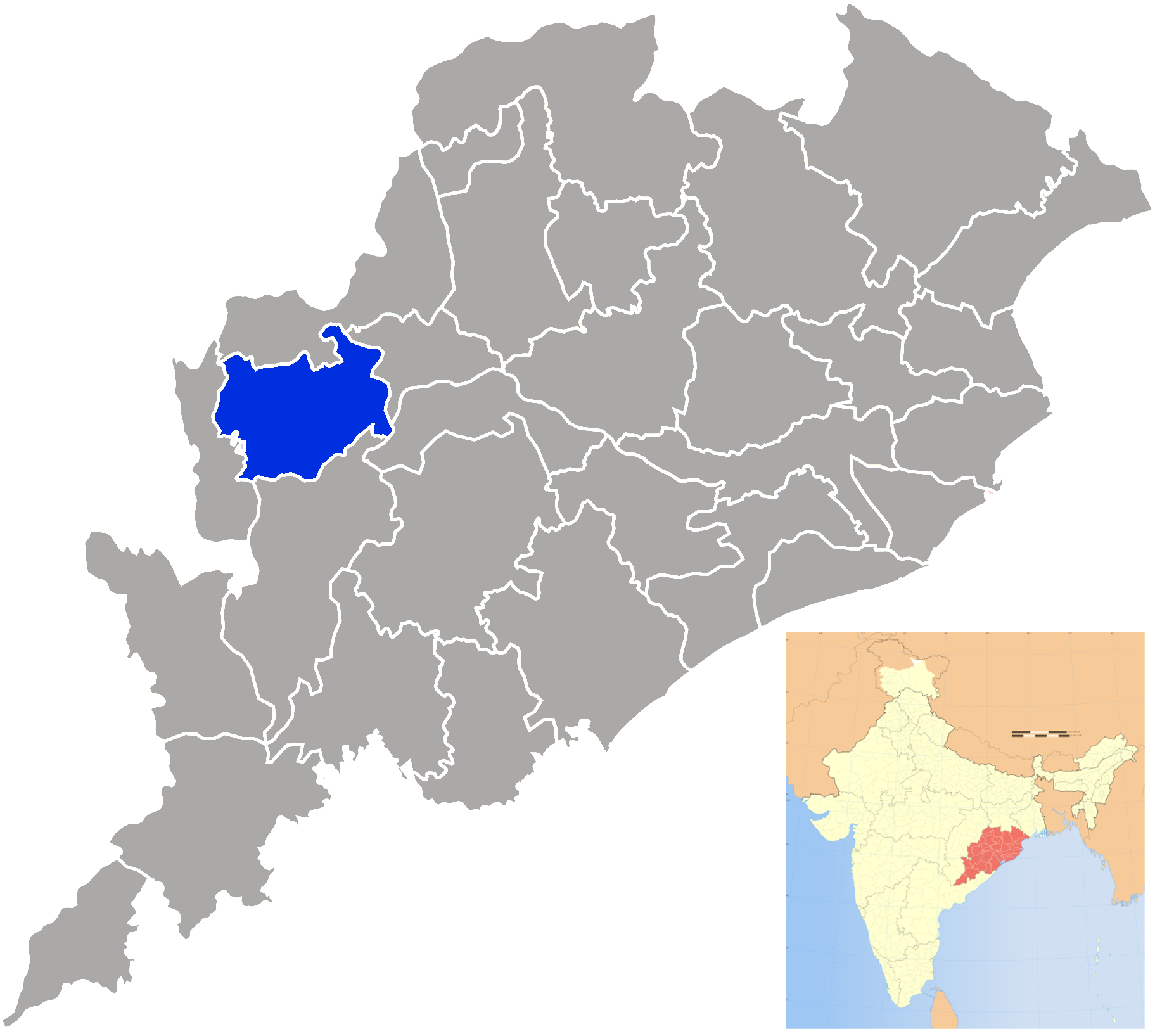 Balangir district in Orissa